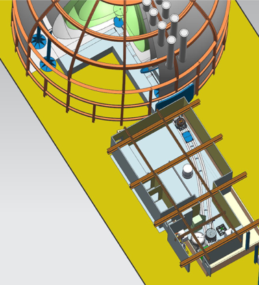 Conceptual drawing of the SOX (Short-distance Oscillations with boreXino) antineutrino generator deployment from its external dropoff point, through the calorimetry areas, to its operational position in the small pit under the Borexino detector.